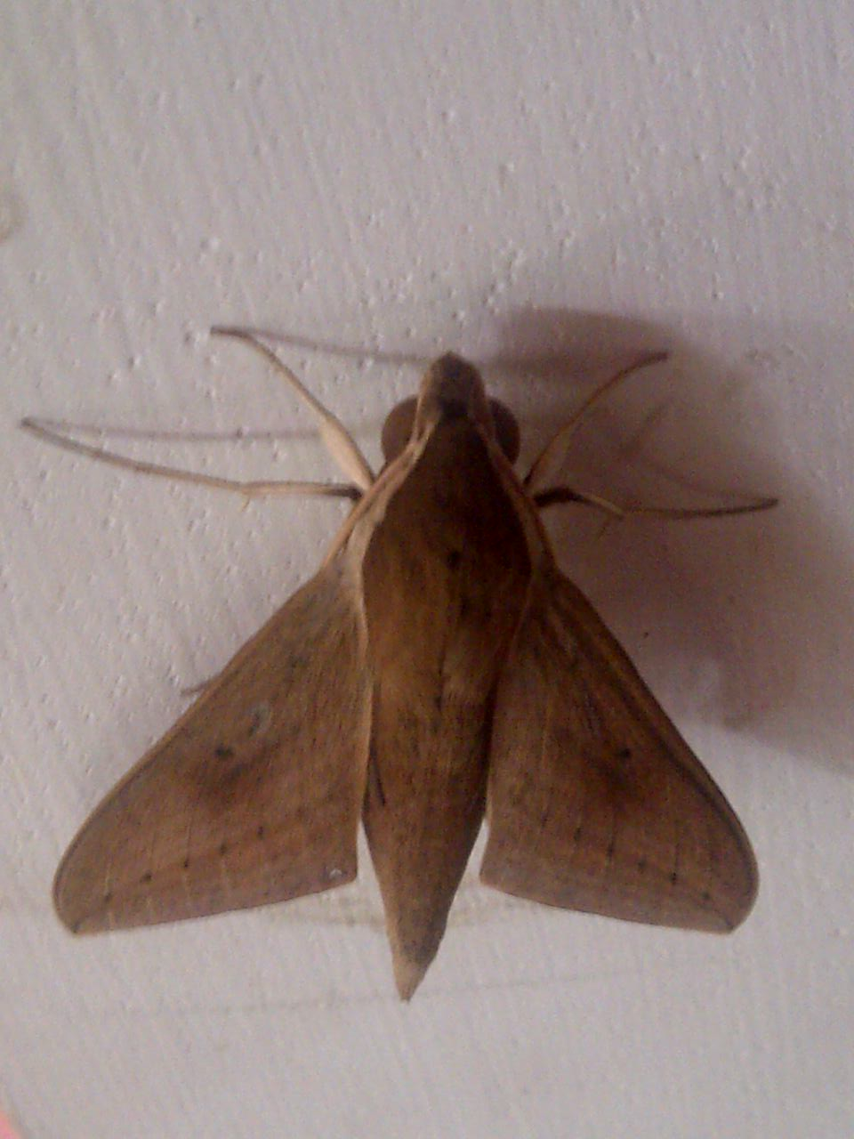 Macroglossum regulus in Kerala, India.